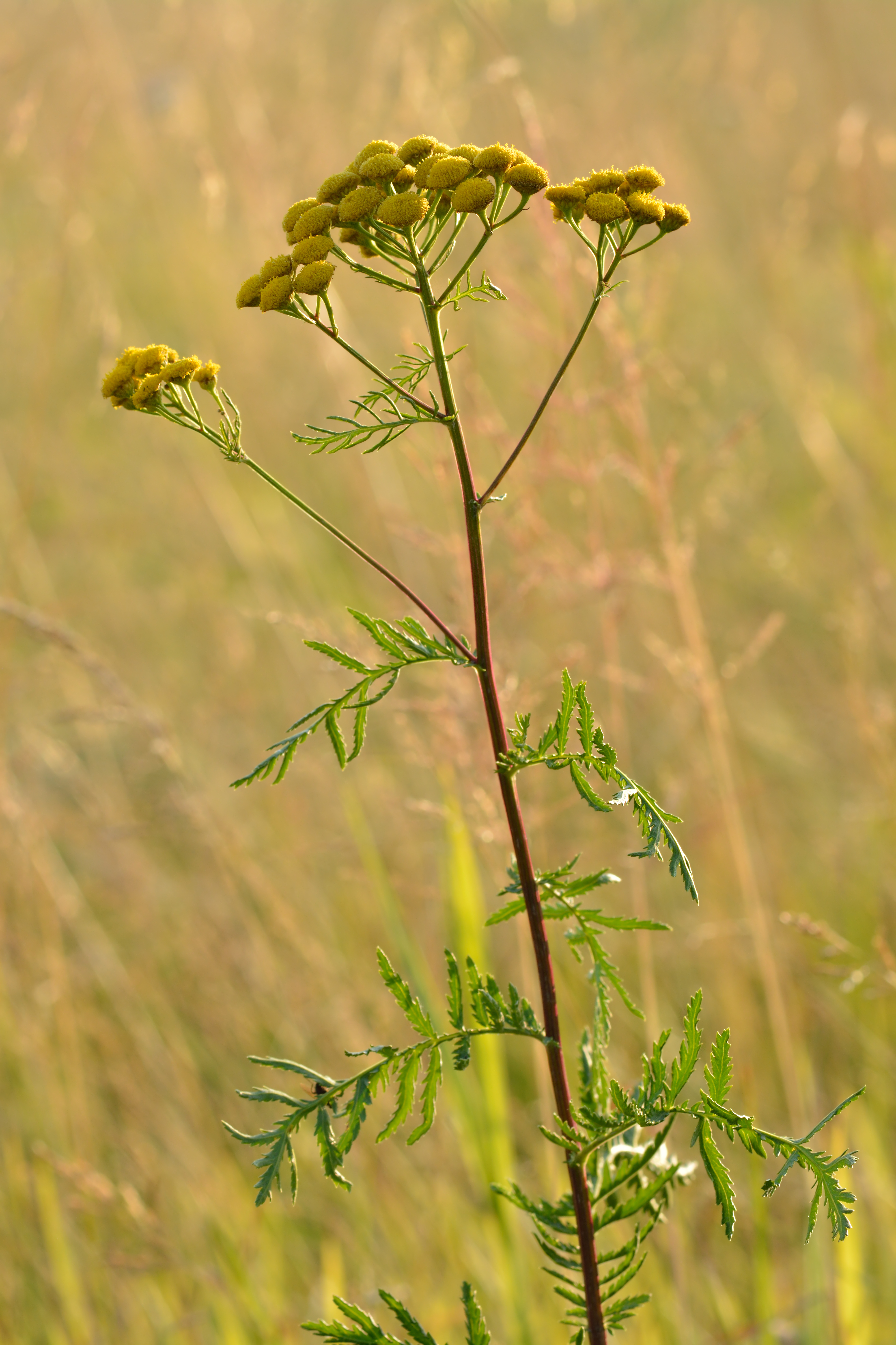 Tanacetum vulgare - common tansy in Keila, Estonia.